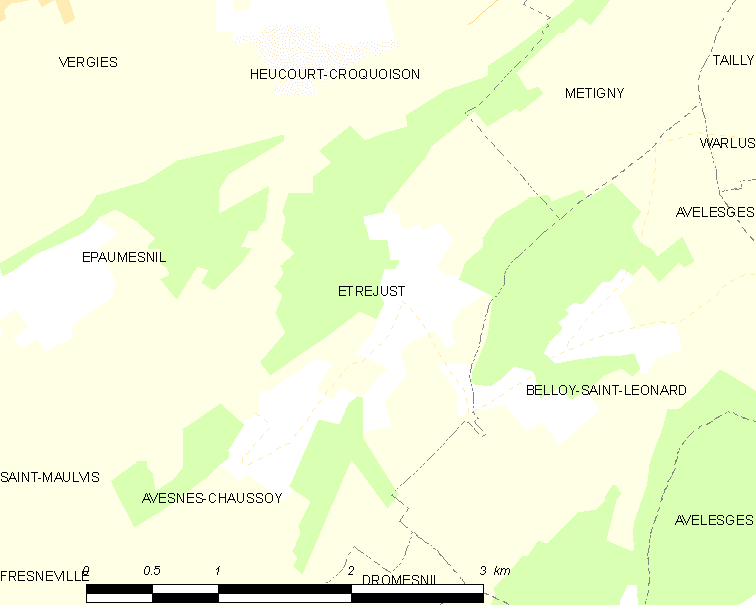 Map of French municipality Étréjust